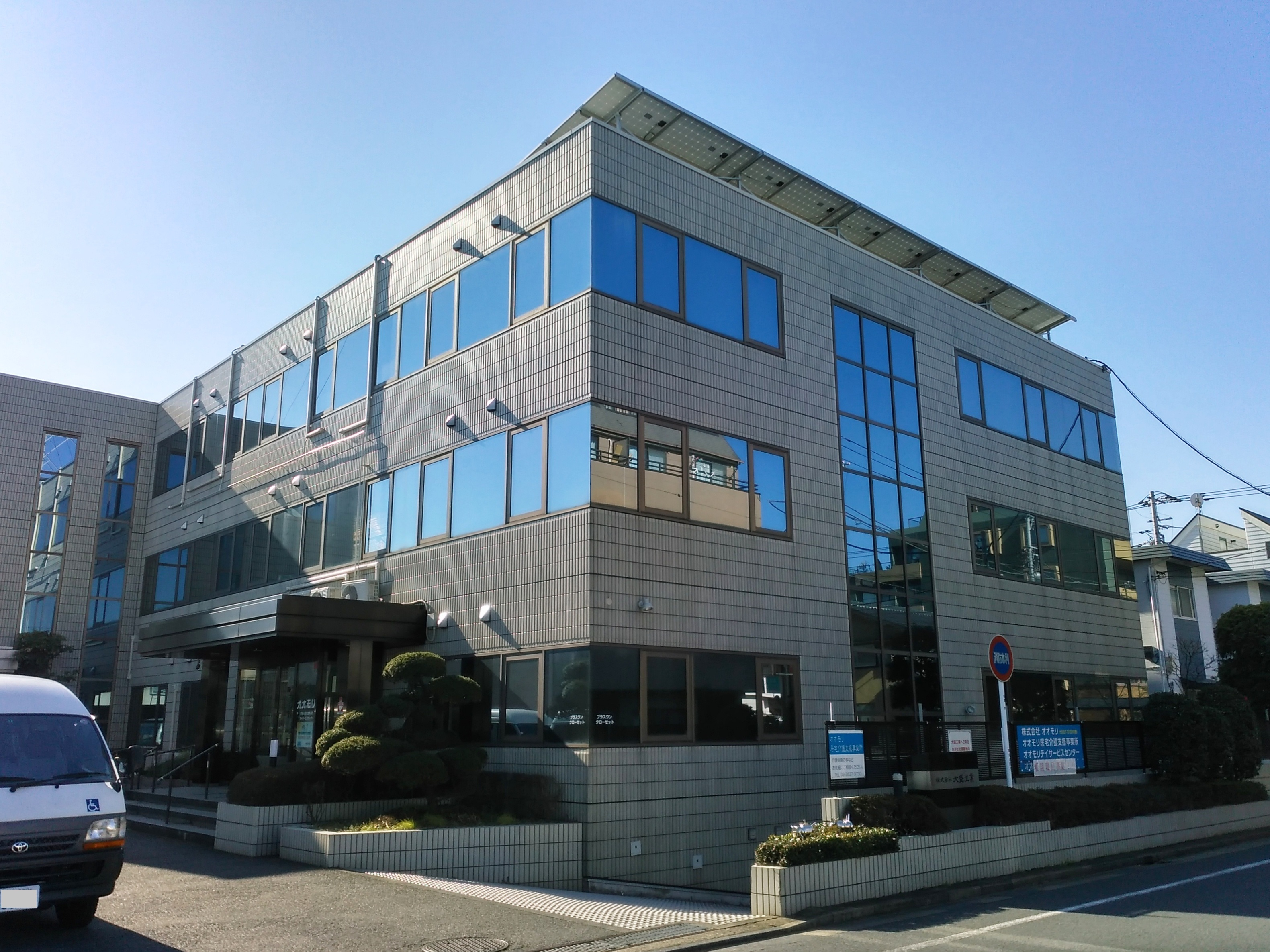 The headquarters office of Ohmori Co., Ltd. (TYO:1844), a construction company in Katsushika-ku, Tokyo, Japan. A car number has been masked by the uploader.